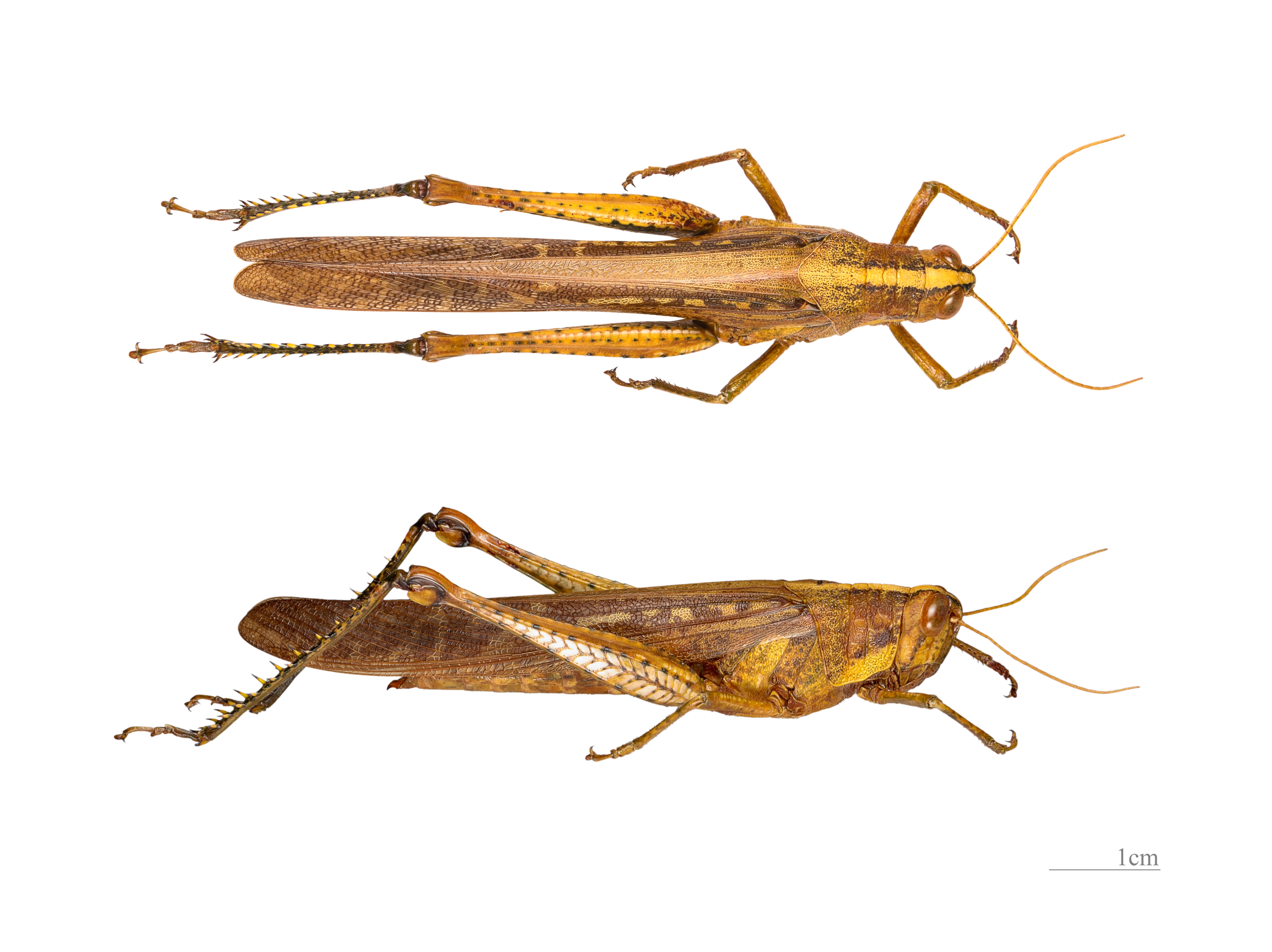 ♂ - Two views of same specimen Locality : “Rue Pasteur ” Cayenne, French Guiana